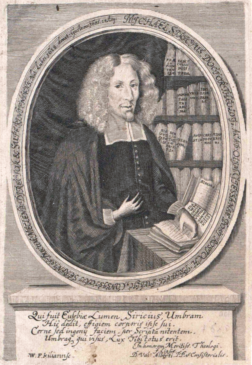 Portrait of Michael Siricius (Professor), copper engraving 185 x 126 mm, see also [1]